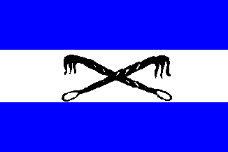 Pre-1977 flag of Caprivi